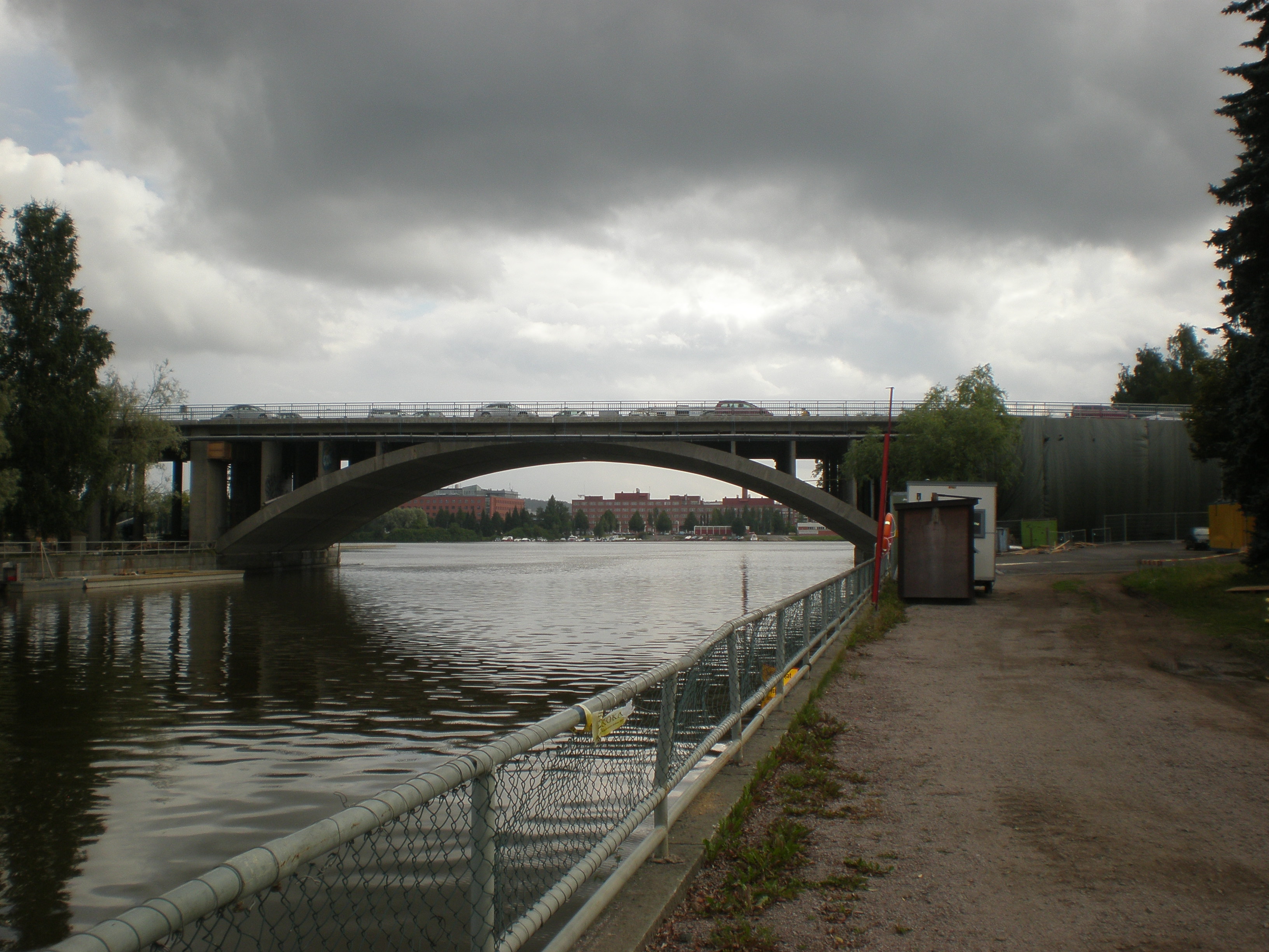 Ratina Bridge during renovation